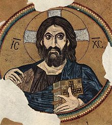 Christ Pantocratic